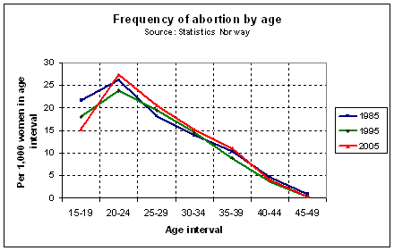 Abortion in Norway by age, 1985, 1995 and 2005